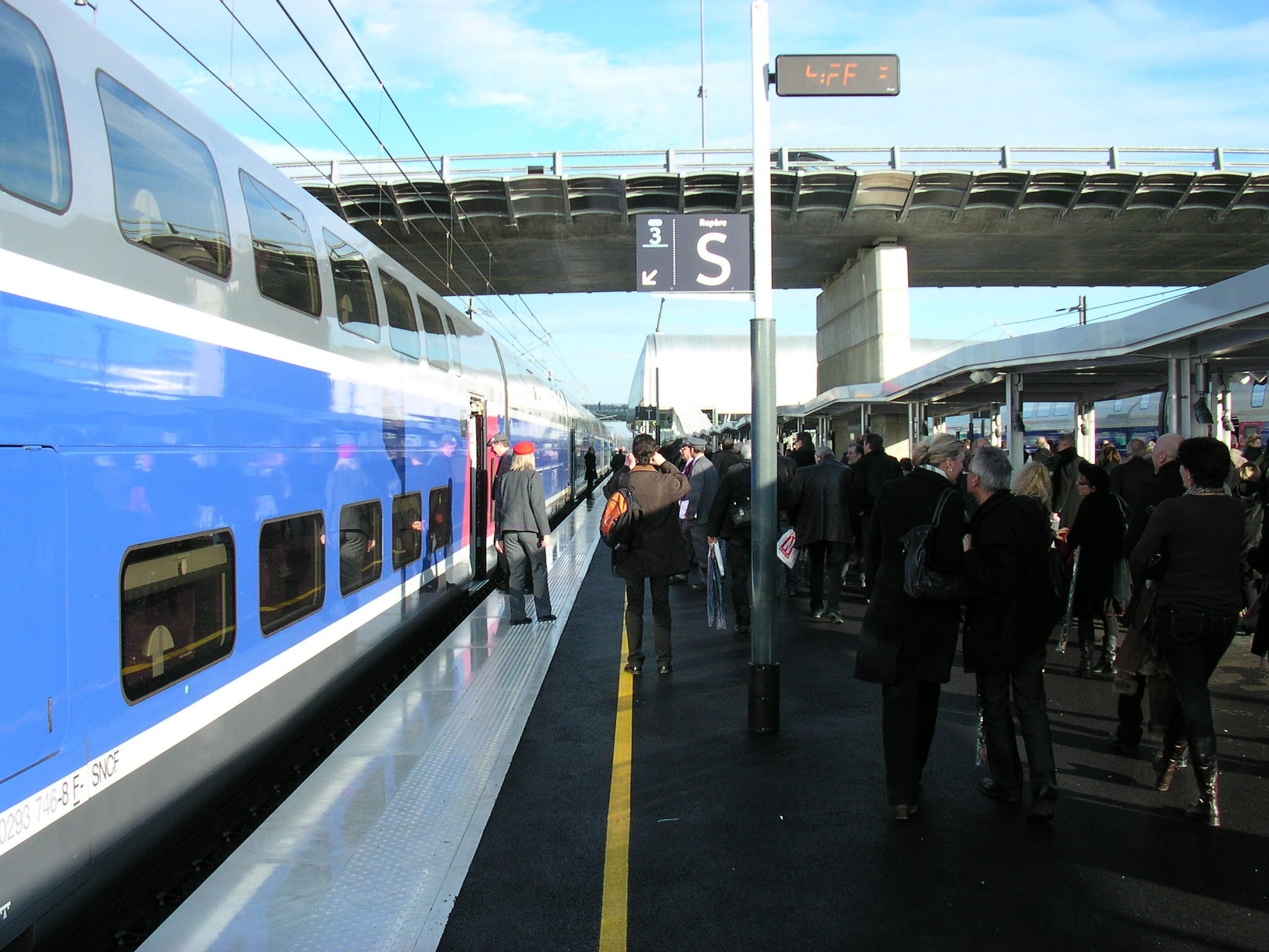 Ambiance on the platforms during the Belfort - Montbéliard TGV railway station's inaugural. On the left the TGV Duplex Dasye number 746 train.